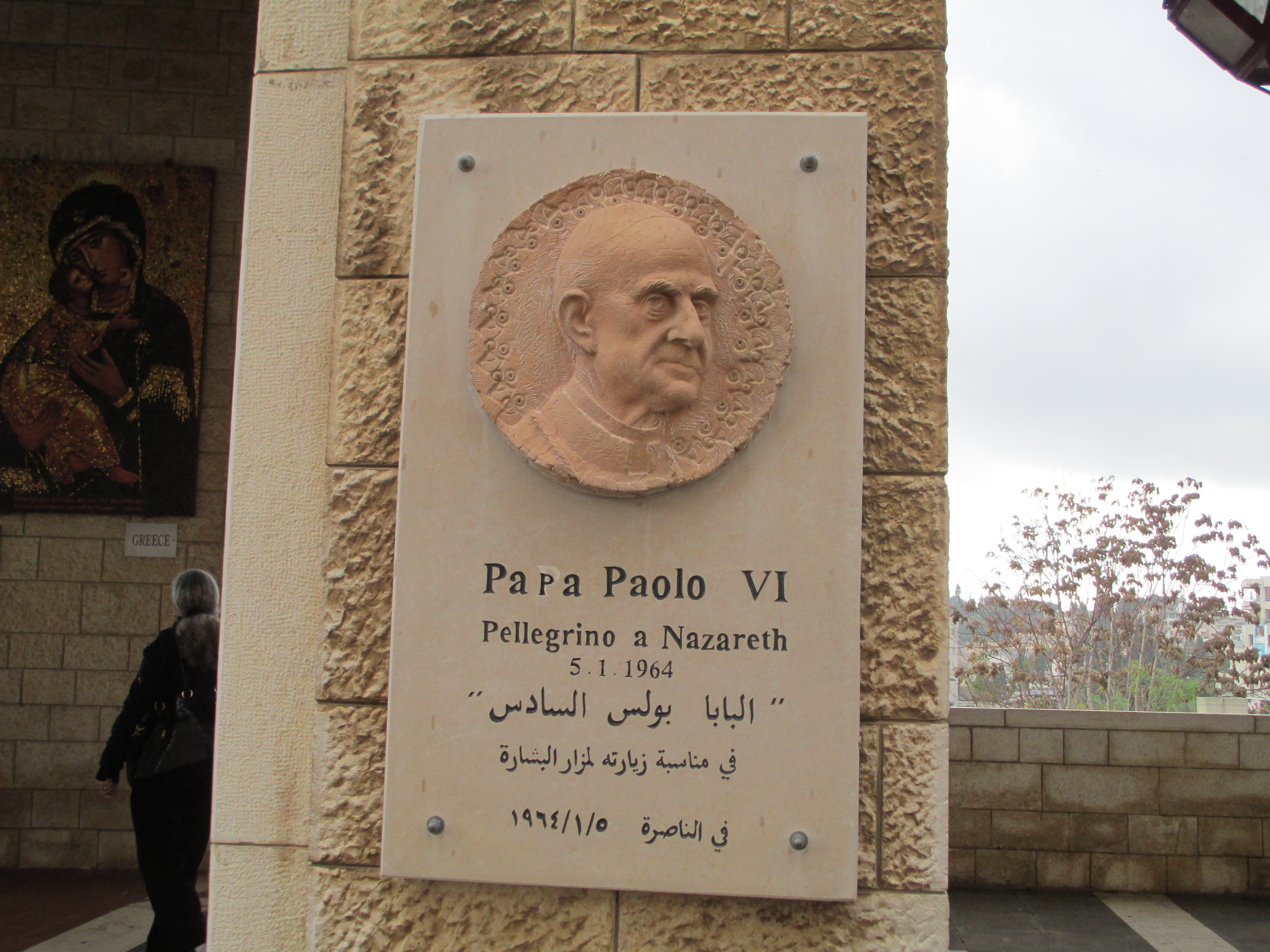 relief of pope paulus vi in the church of the annunciation in nazareth תבליט של פאולוס ה-6 בכנסיית הבשורה בנצרת. הוא ביקר בישראל ב-5/1/1964